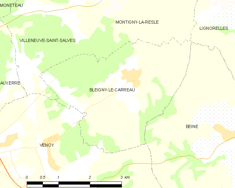 Map of French municipality Bleigny-le-Carreau